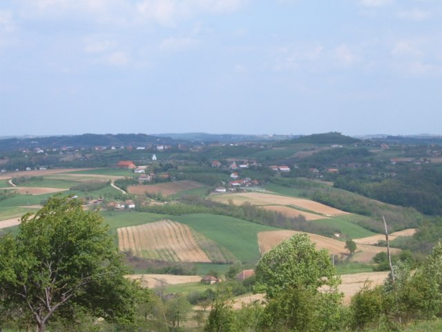 Panoramic view of Mrovska, near Vladimirci, Serbia